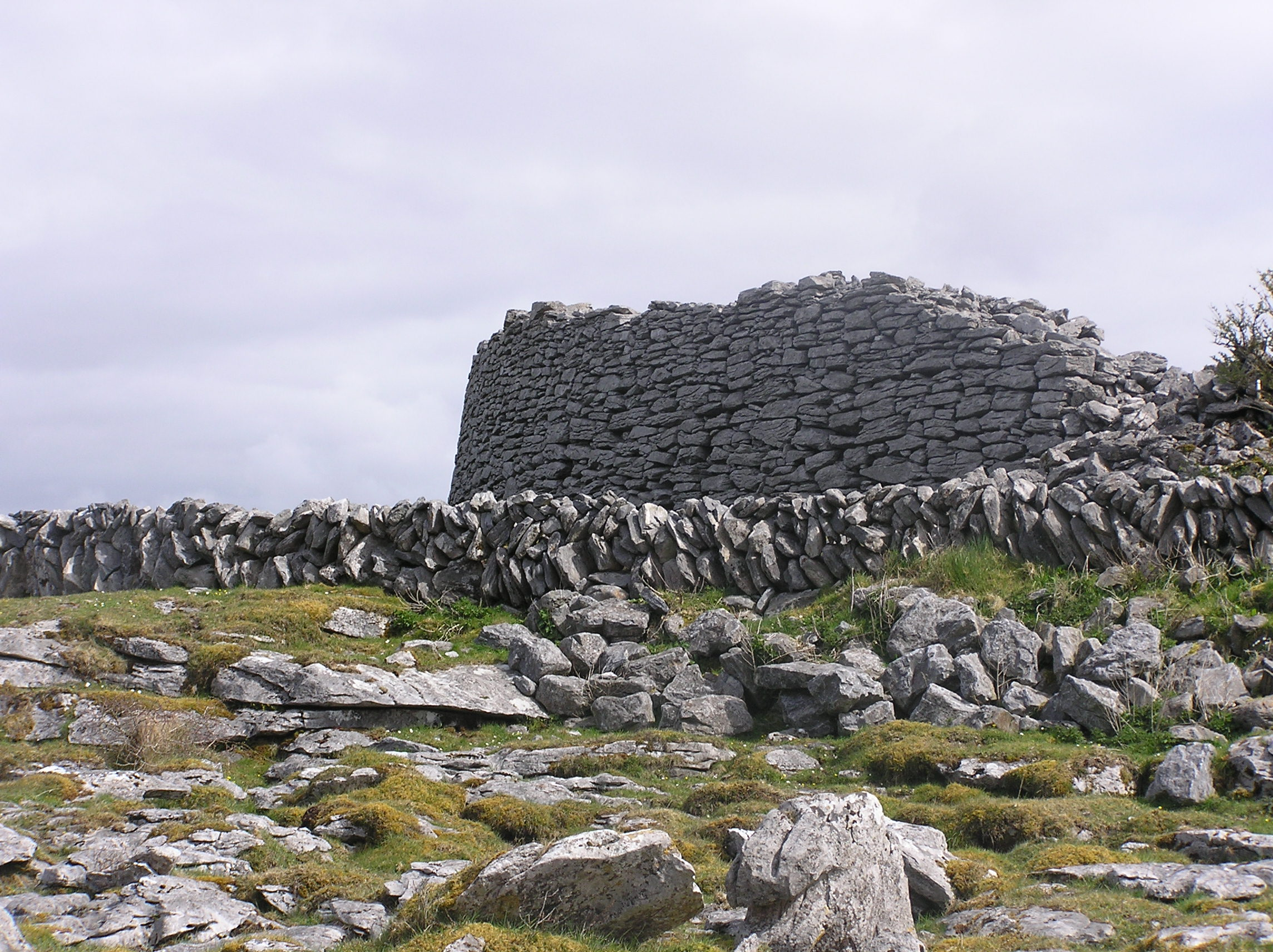 View of Caherconnell Stone Fort